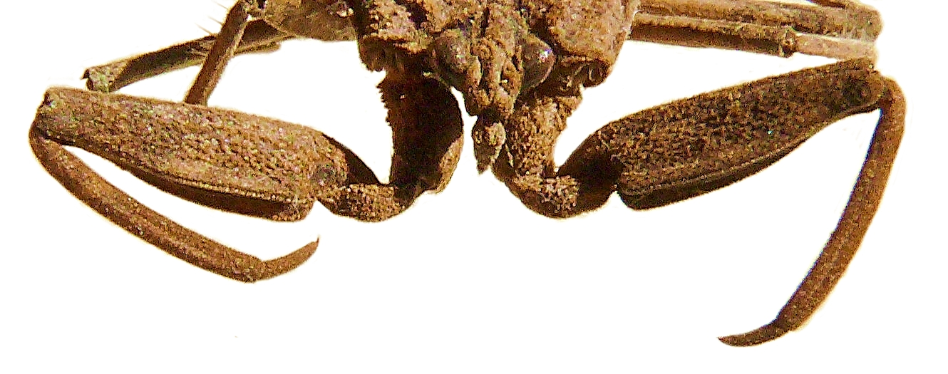 Head and forelegs of Nepa cinerea.